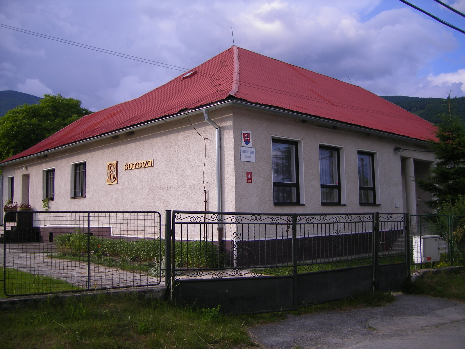 Šútovo - town hall